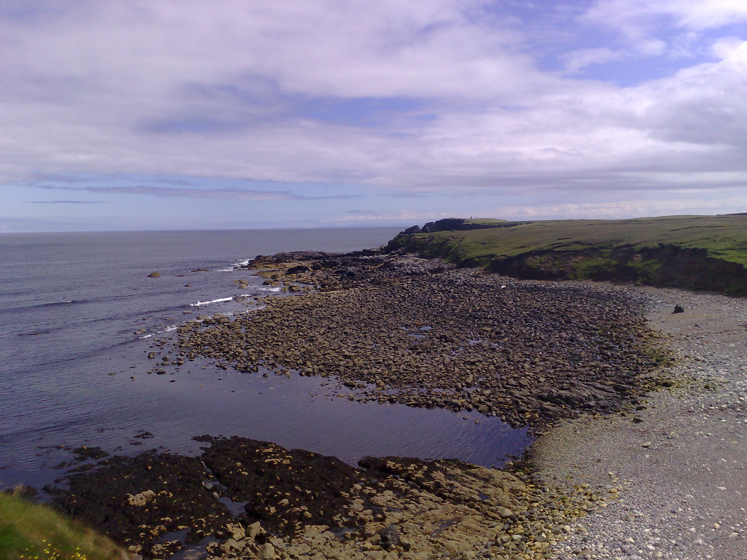 Photograph of the shore at Skigersta at low tide on the east side of the Isle of Lewis, the man made channel where boats came ashore with fish is visible in the shore line